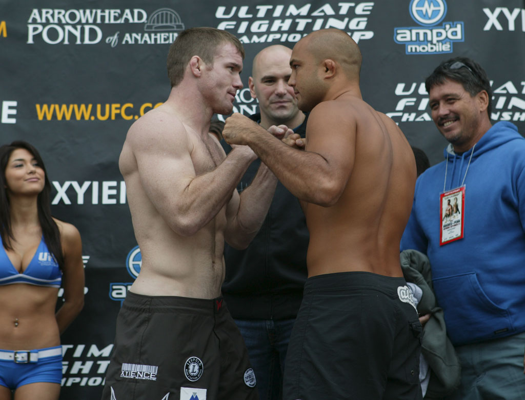 Matt Hughes and BJ Penn stare each other down after weighing in at Arrowhead Pond of Anaheim Sept 23. Photo by: Lance Cpl. Stephen McGinnis Photo ID: 2006102134733 Submitting Unit: MCB Camp Pendleton Photo Date:09/23/2006